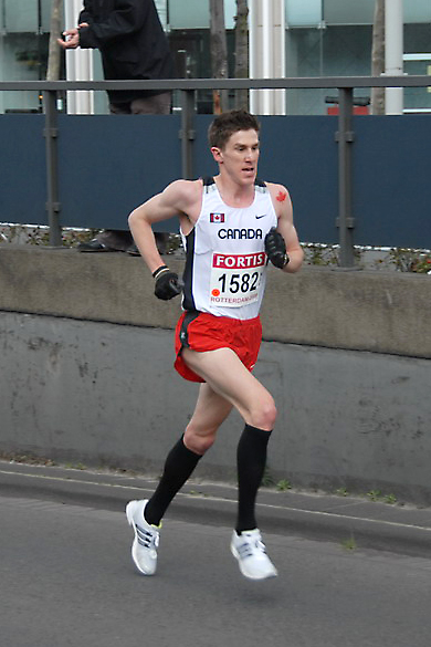 Dylan Wykes racing the Rotterdam Marathon in 2008